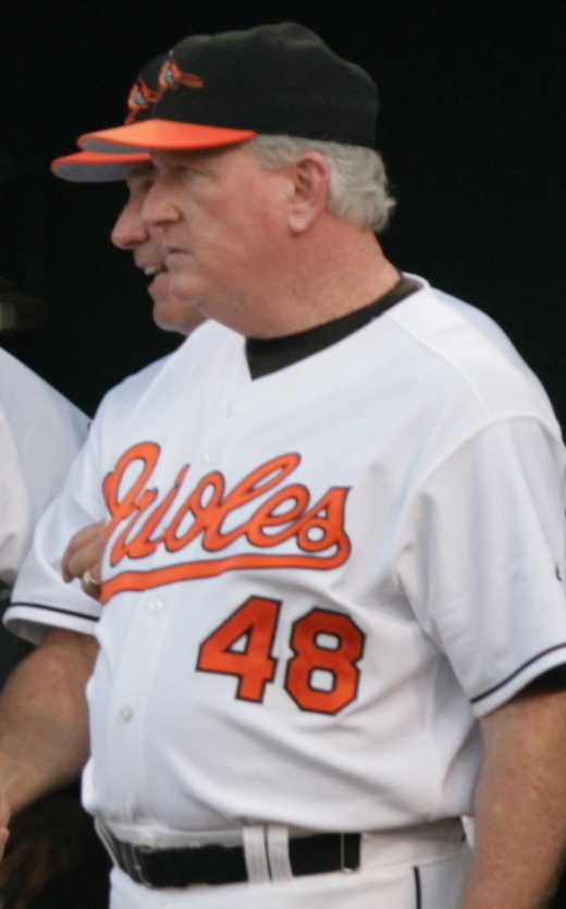 Jay Gibbons, Miguel Tejada and others in the Baltimore Orioles dugout at Camden Yards during a 2006 game in Baltimore